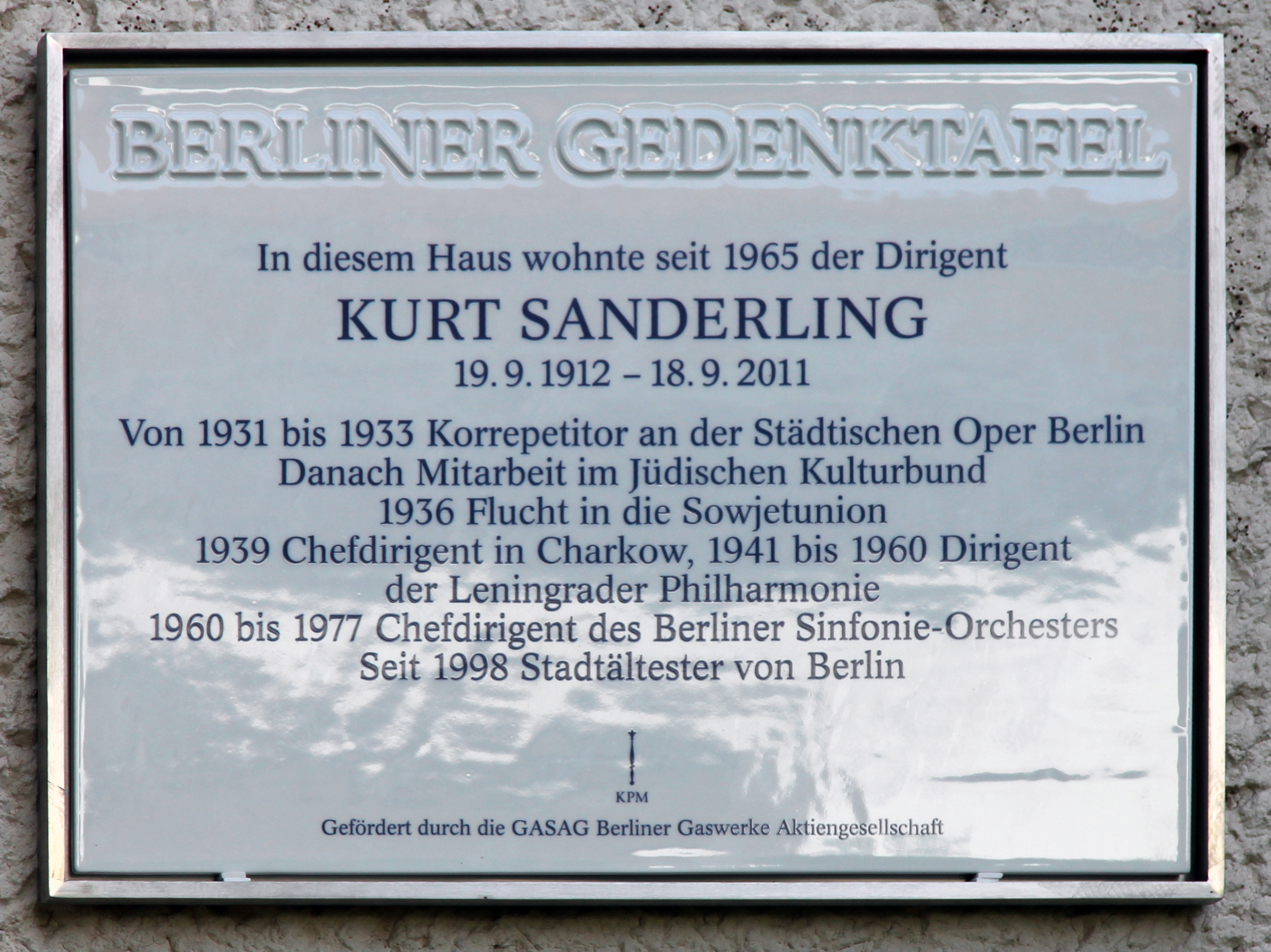 Berlin memorial plaque, Kurt Sanderling, Am Iderfenngraben 47, Berlin-Niederschönhausen, Germany